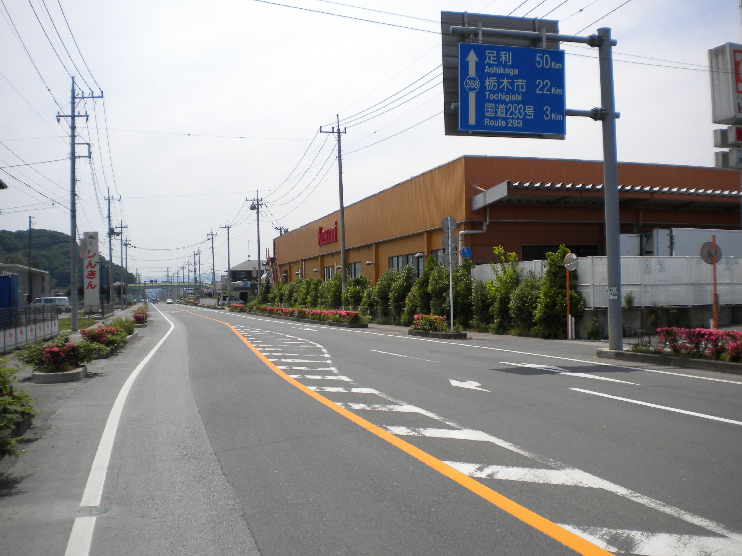 The Tochigi Prefectural Road Route 268 in Sakaecho 2-chome, Kanuma City